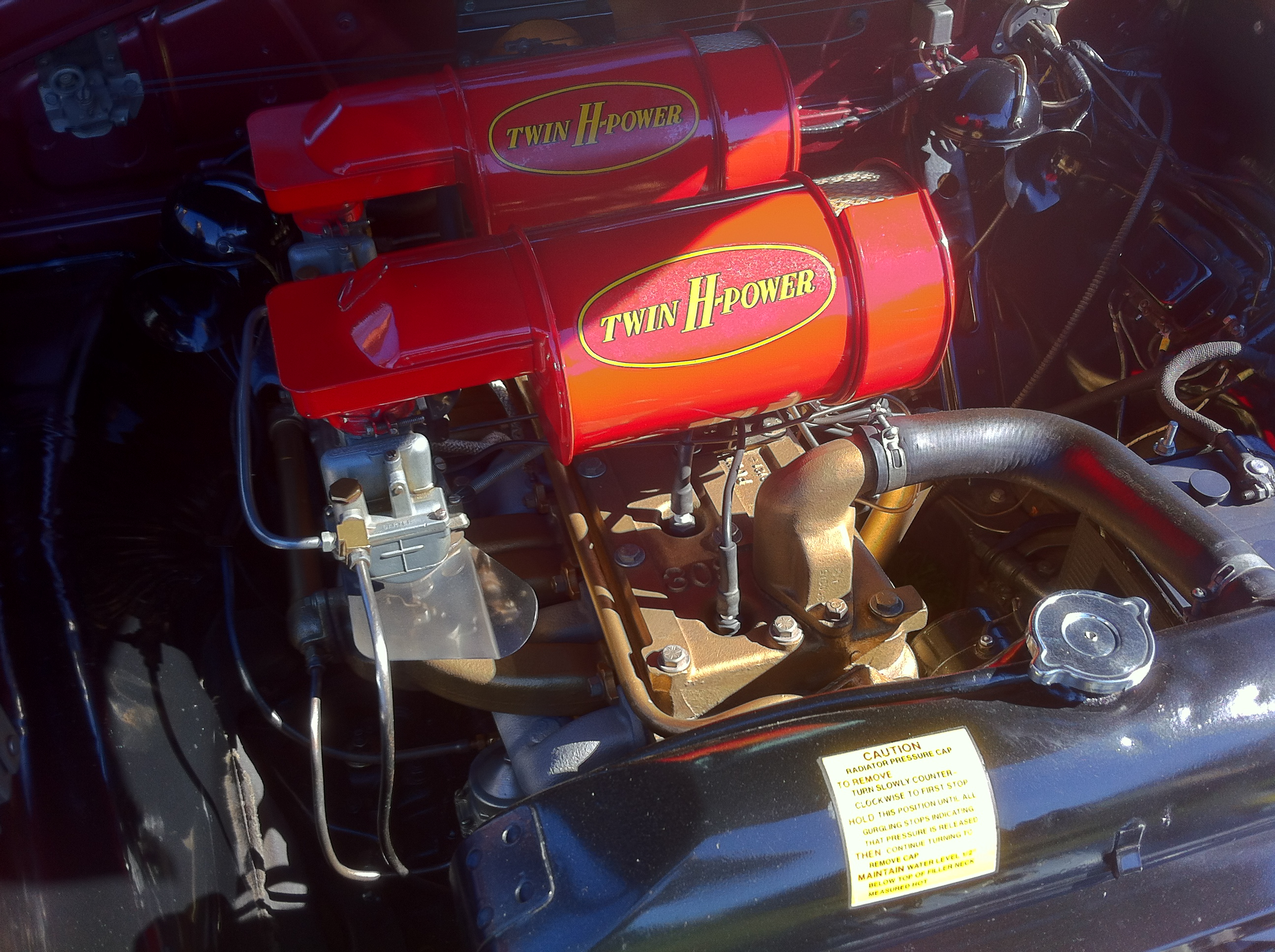 1951 Hudson convertible - front view of the straight-six engine with "Twin H-power". This car is finished in maroon paint with factory available maroon cloth top and matching leather upholstery. The top and side windows are hydraulically operated - a standard feature. ( More information here: ). Picture taken on the show field of the Antique Automobile Club of America (AACA) 2012 Hershey meet that is held every October in Pennsylvania.